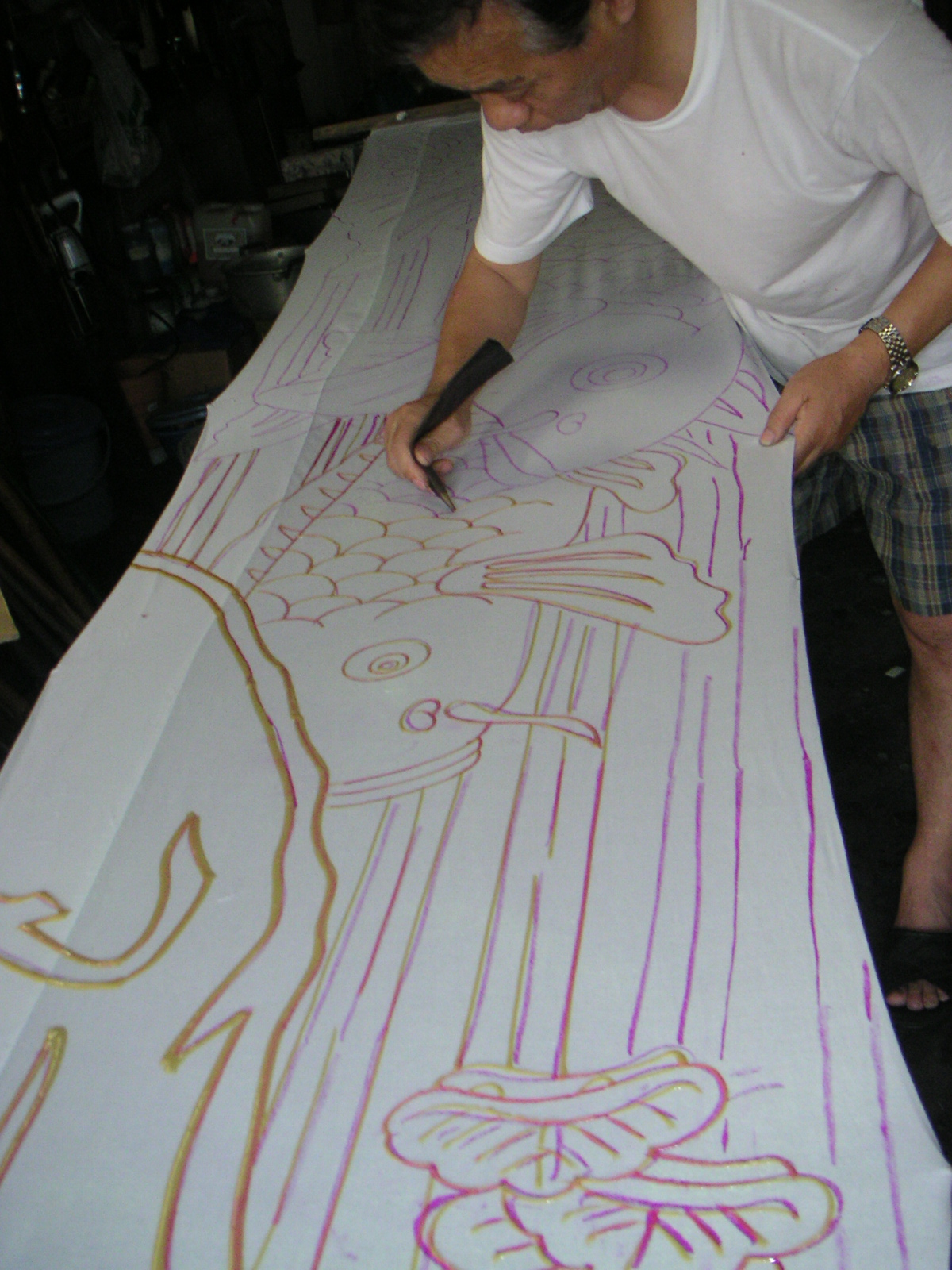 筒描き手染め武者絵のぼり 鯉の滝昇り Japanese TSUTSUGAKI Worriors Nobori